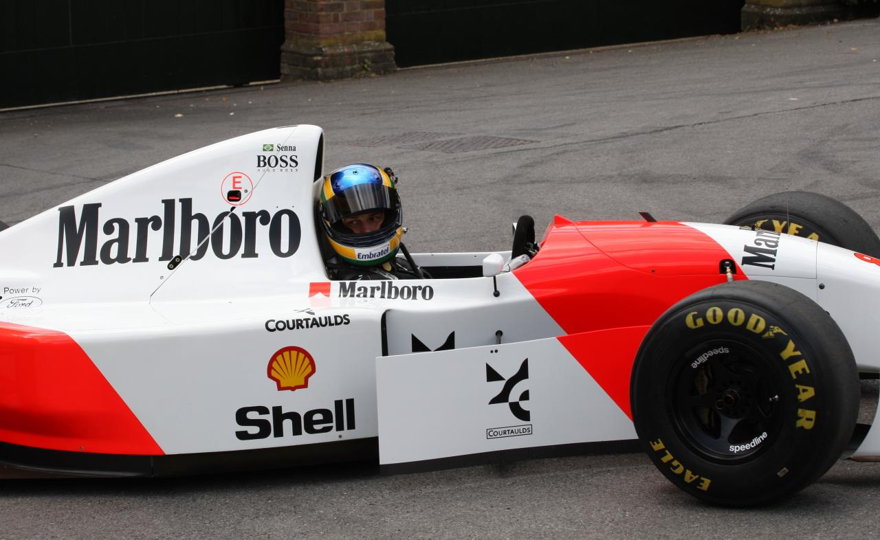 Bruno Senna drives Ayrton Senna's car from 1993